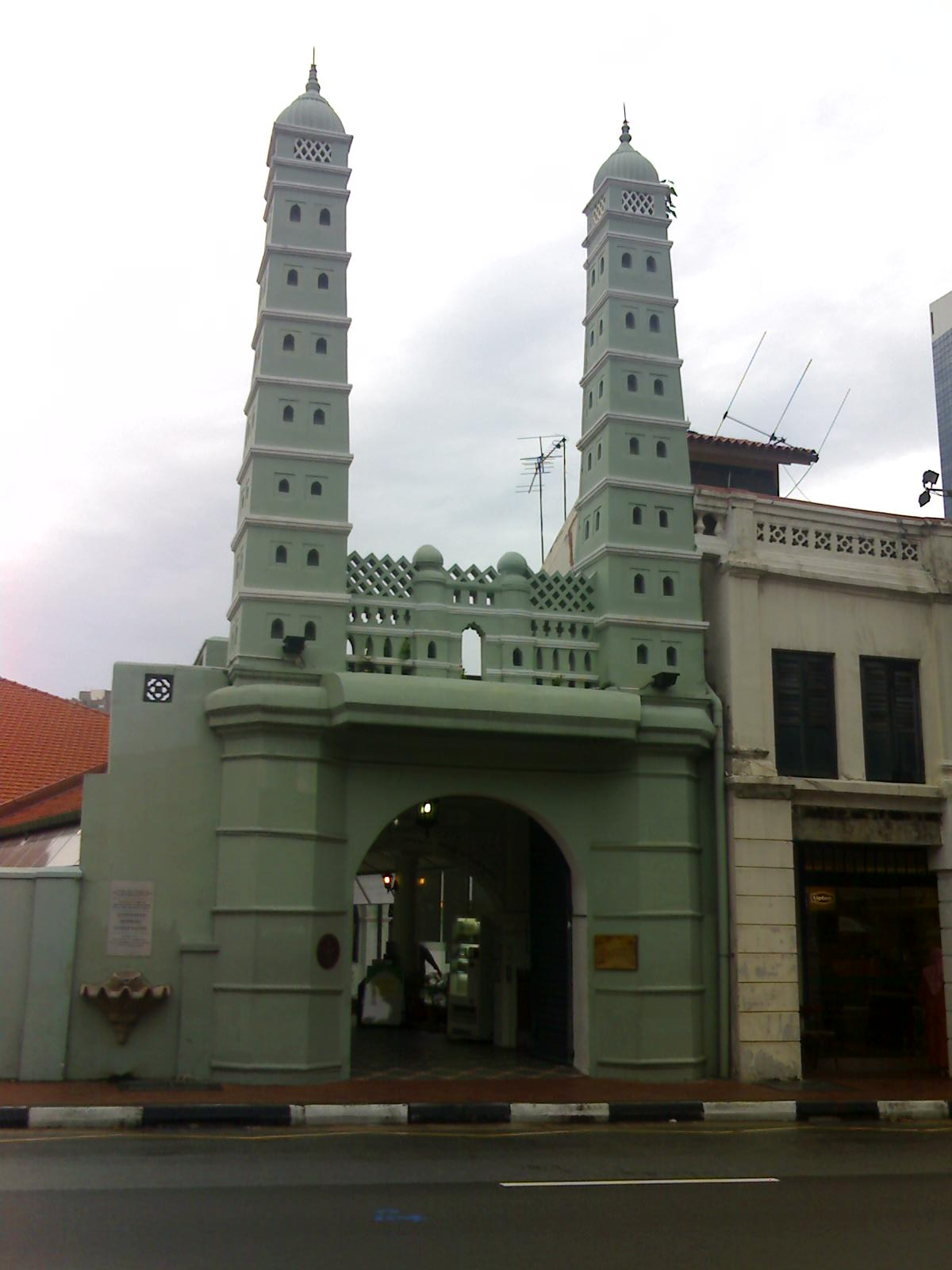 Masjid Jamae along South Bridge Road, Singapore.